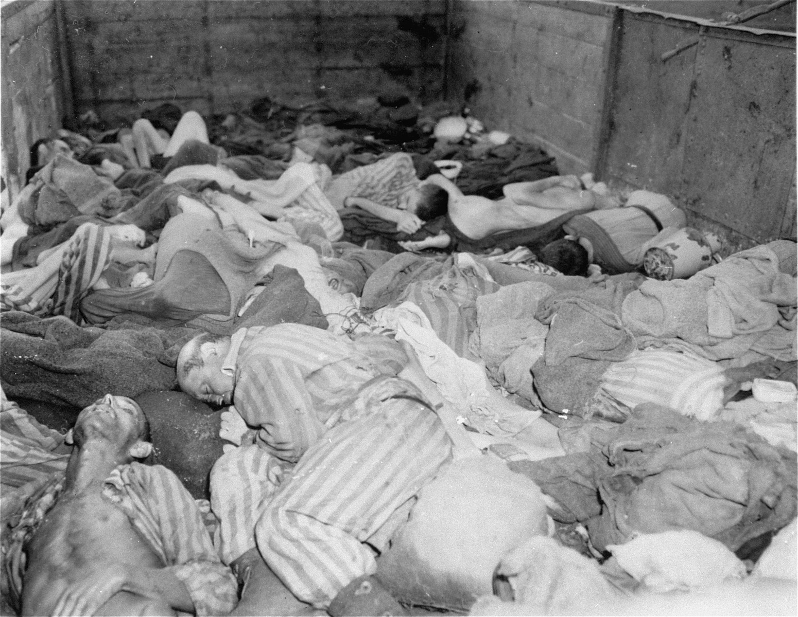 Corpses lie in one of the open wagons of the Dachau death train. The Dachau death train consisted of nearly forty wagons containing the bodies of between 2,000 and 3,000 prisoners who were evacuated from Buchenwald on April 7, 1945. The train arrived in Dachau on the afternoon of April 28.